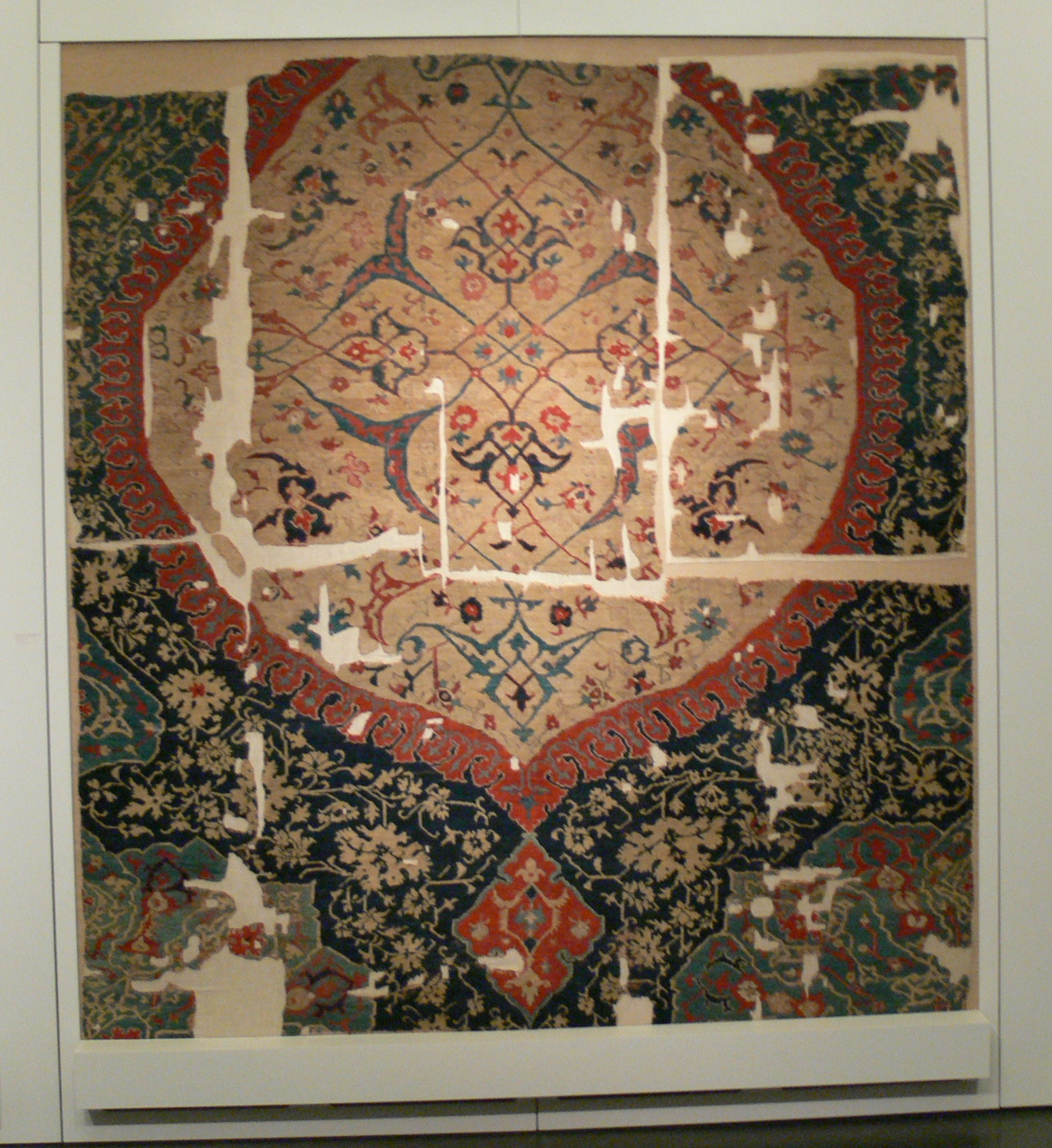 Museum of Islamic Art ( Berlin ). Fragment of a medaillon Ushak ( ca.1600 ), from Turkey, Inv.Nr I 72/62.